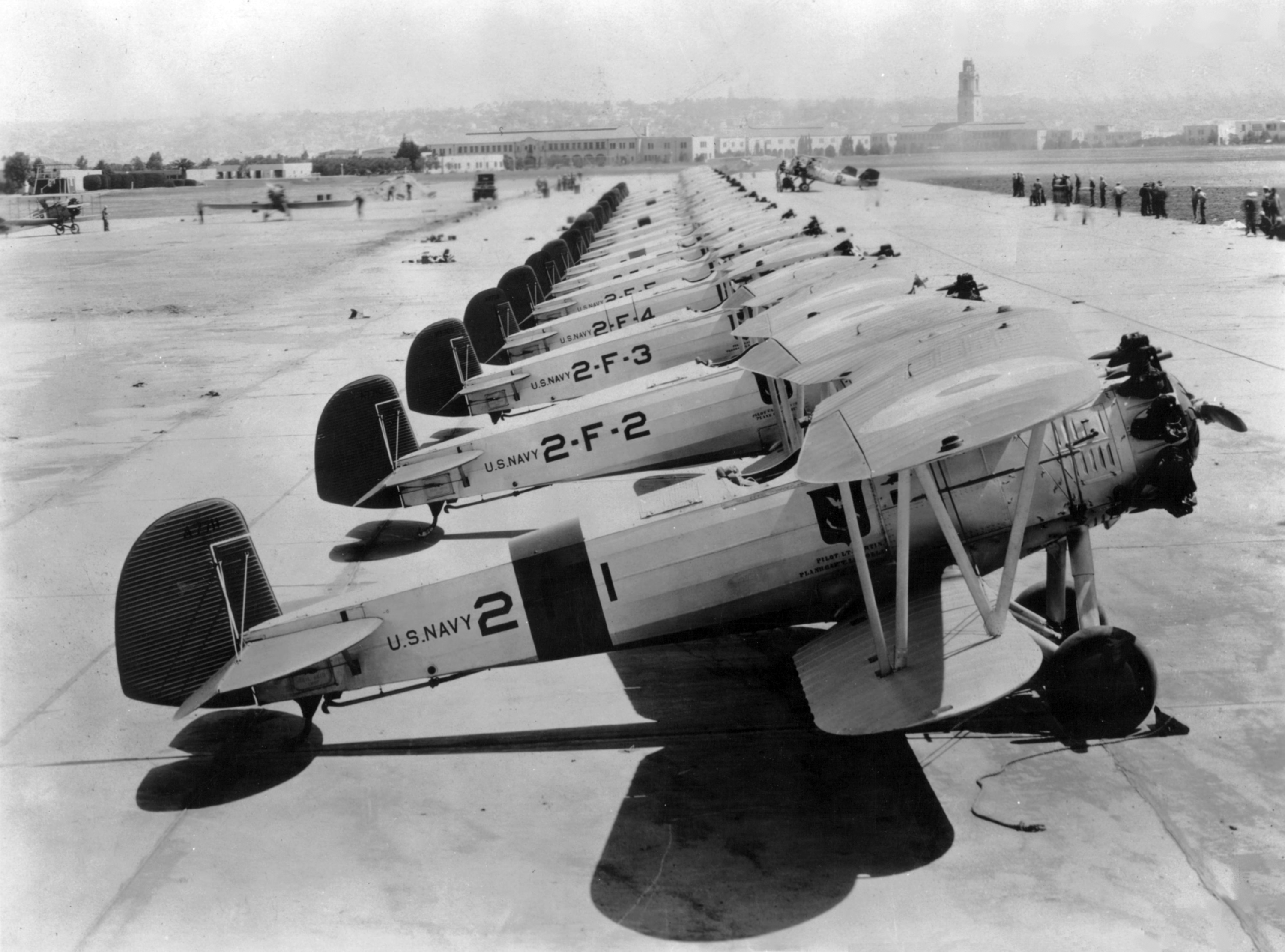 U.S. Navy Boeing F3B-1 aircraft of Fighting Squadron VF-2B at Naval Air Station North Island, San Diego, California (USA). VF-2B was assigned to the aircraft carrier USS Langley (CV-1).